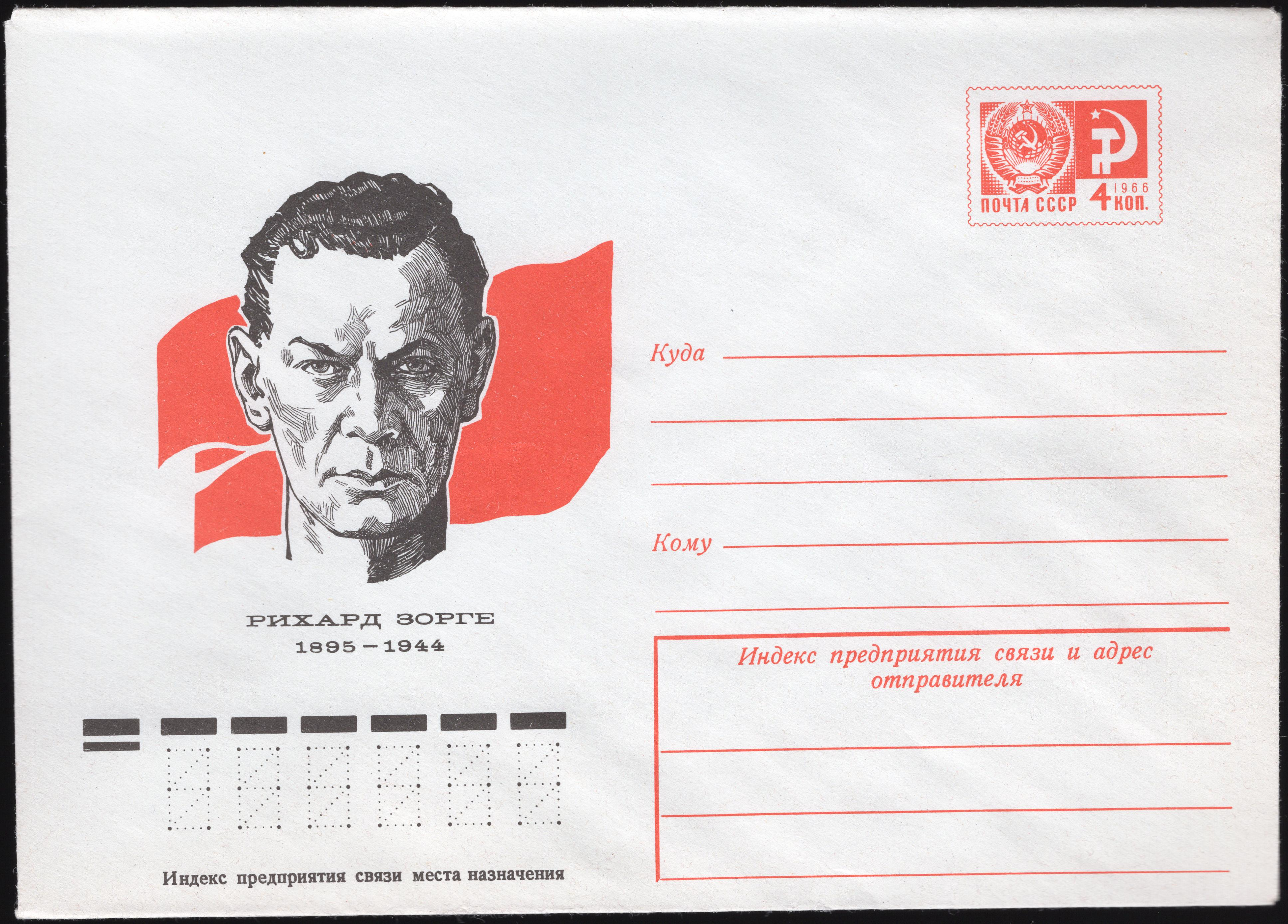 Richard Sorge. 1895-1944. Series: People. Artist Peter Bendel.